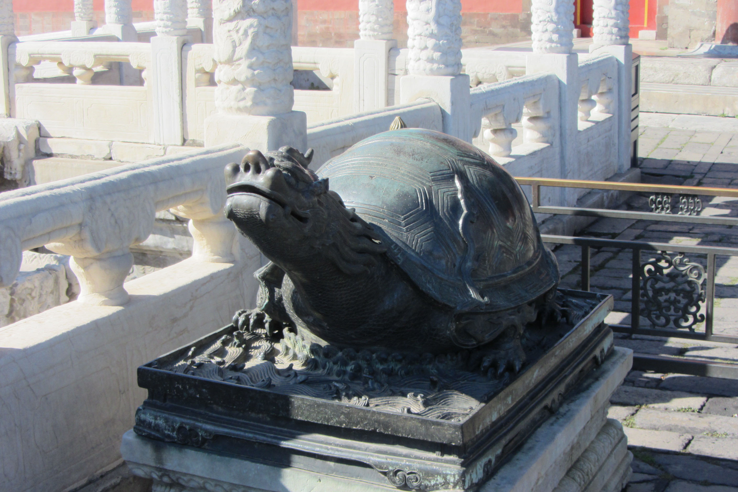 Turtle in front of the Hall of Union in the inner court of the forbidden city